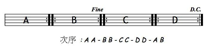 Description of the music term Da Capo. Original version: Image:Structure 1.jpg